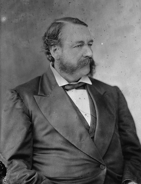 Gibson Atherton, congressman and judge from Ohio.